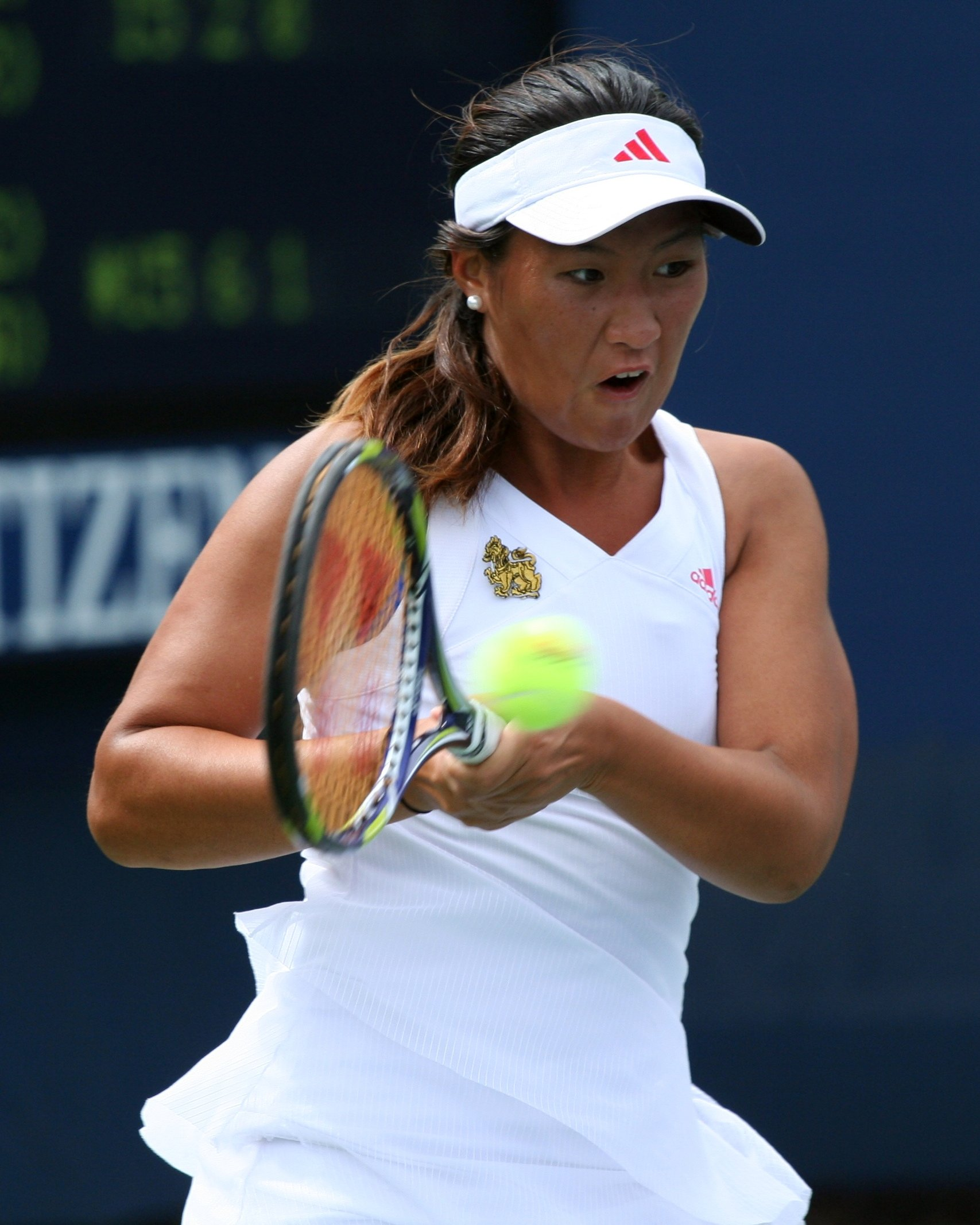 U.S. Open Juniors. Thursday, Sept. 10, 2009